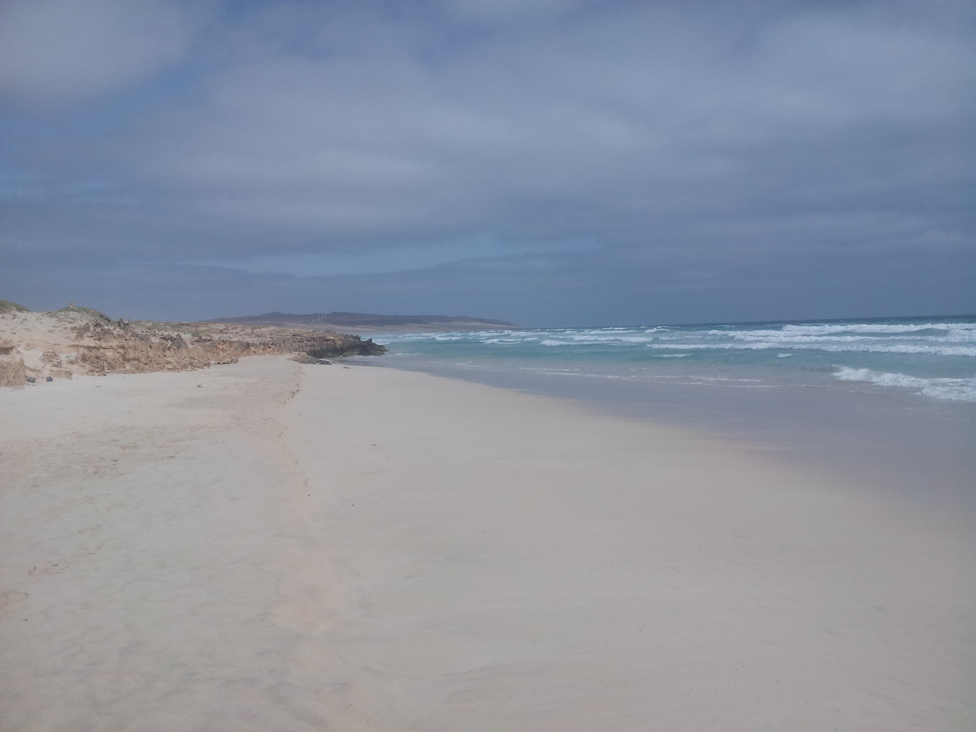 Beach Espingueira in Boa Vista (Cape Verde)